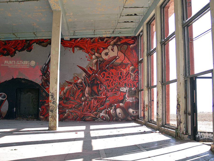 Graffiti at Nagorny Park